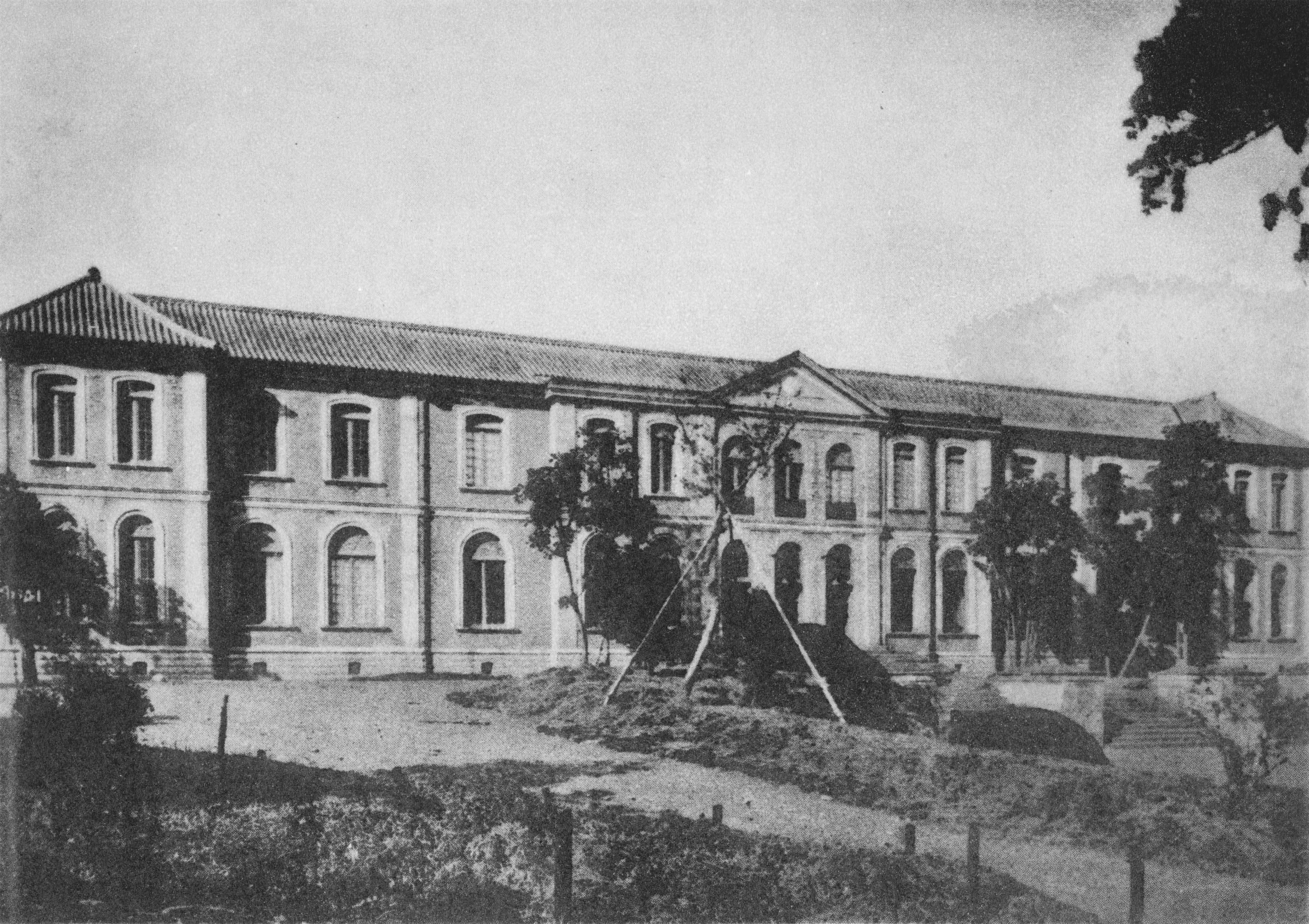 School building of the Tokyo Higher Normal School built in 1887.